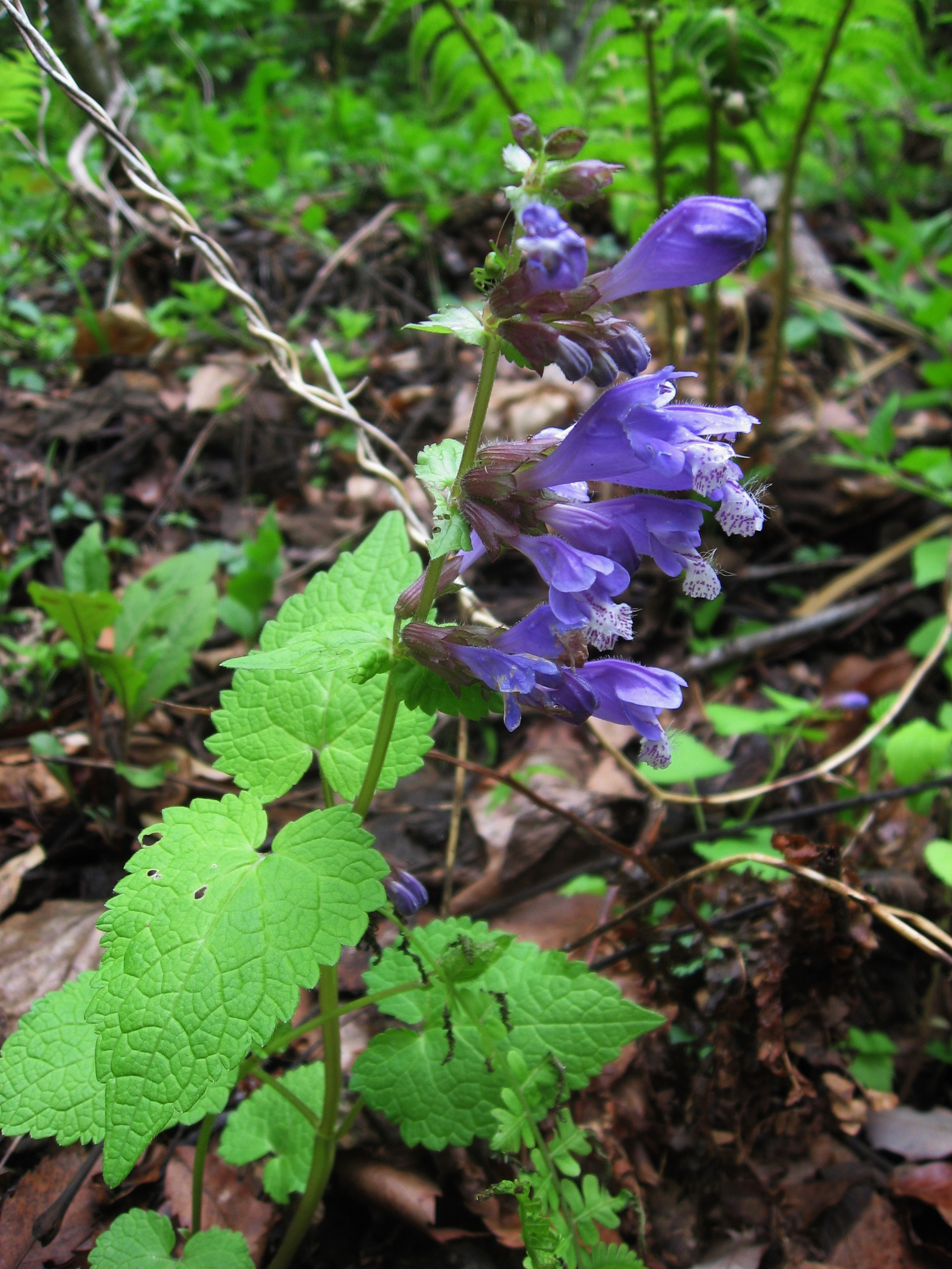 Meehania urticifolia, Aizu area, Fukushima pref., Japan